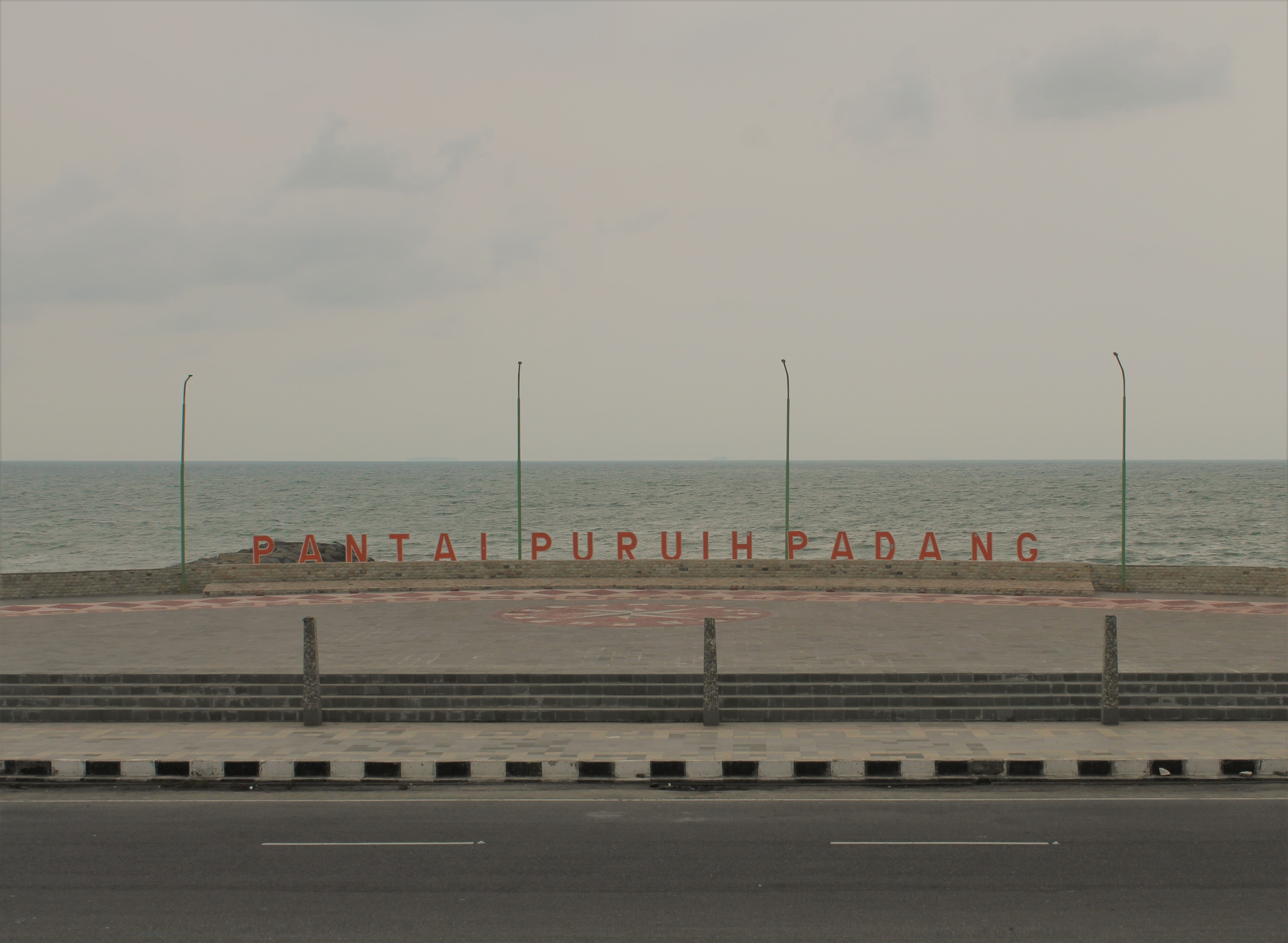 A beach in Padang appear to be quiet as the Indonesian government calls on the public to implement social distancingBahasa Indonesia: Sebuah objek wisata di Kota Padang yang sepi seiring imbauan pemerintah kepada warga untuk melakukan pembatasan sosial